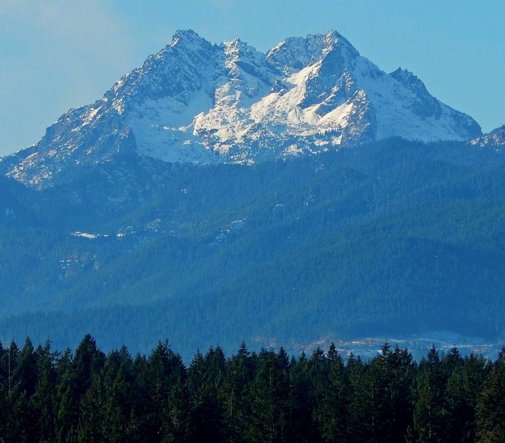 The Brothers seen from east shore of Hood Canal. Olympic Mountains